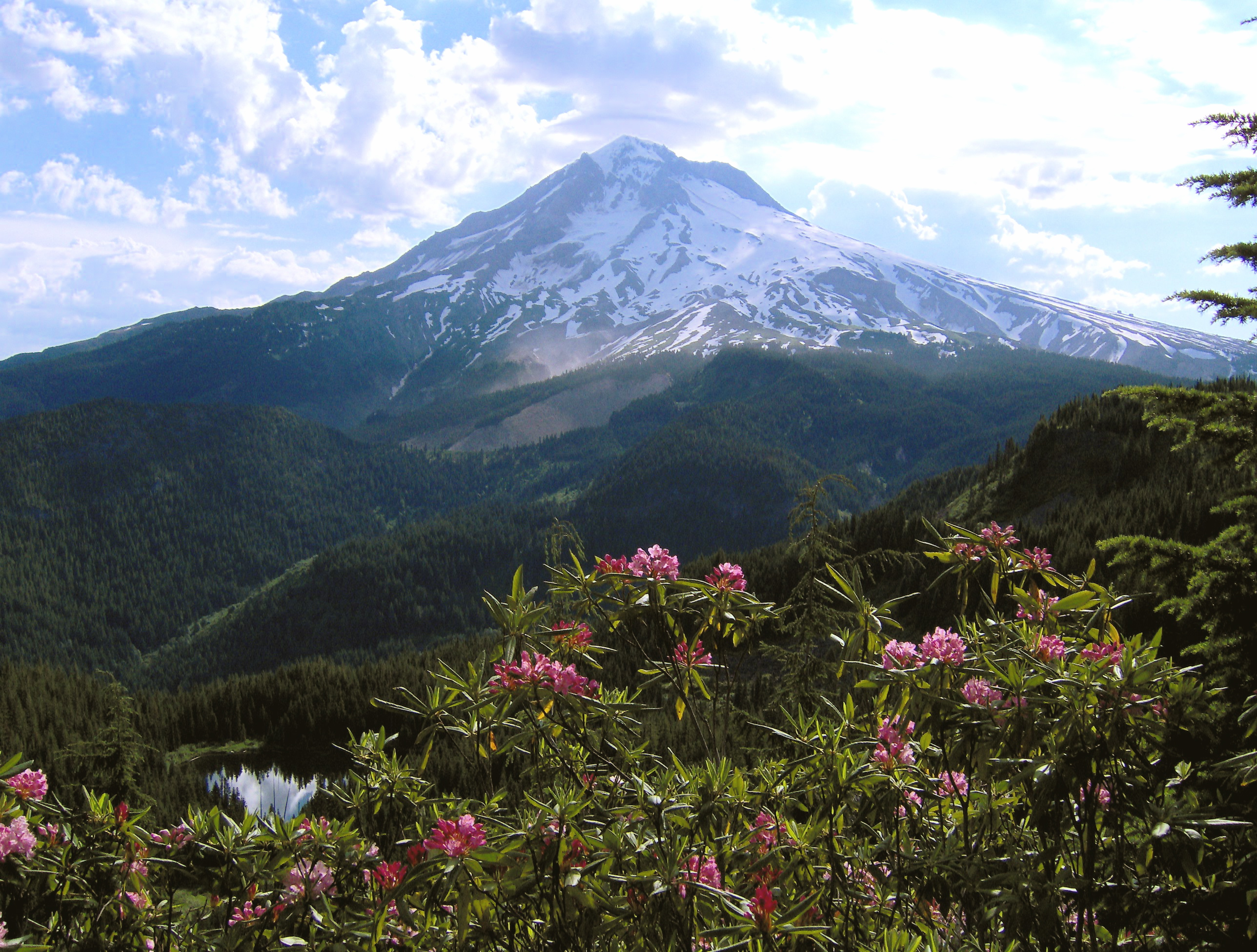 Burnt Lake (bottom left quadrant) from Zig Zag Point on the Pacific Crest Trail, Mount Hood straight ahead, Cascade Range, Oregon, USA